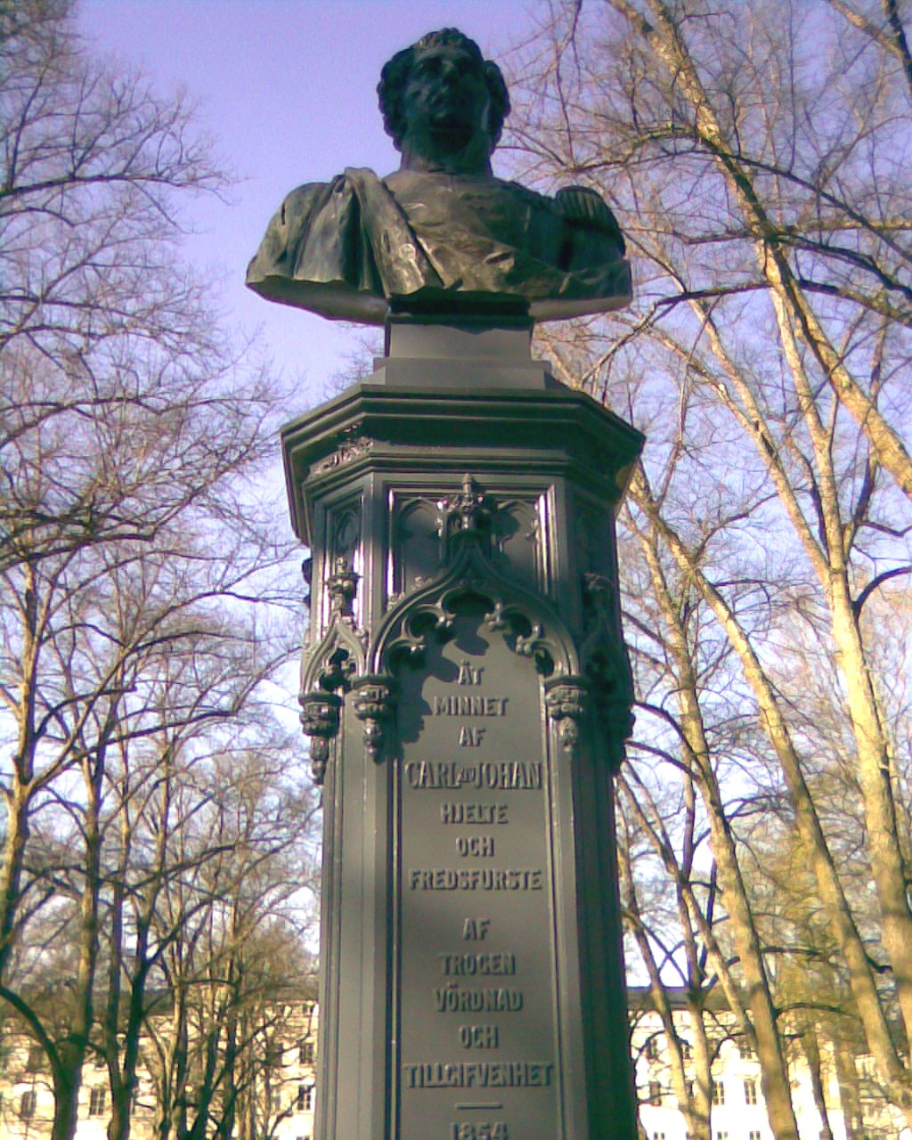 Bust of Charles XIV John of Sweden (1763-1844) in Uppsala by Bengt Erland Fogelberg, inaugurated in 1854.